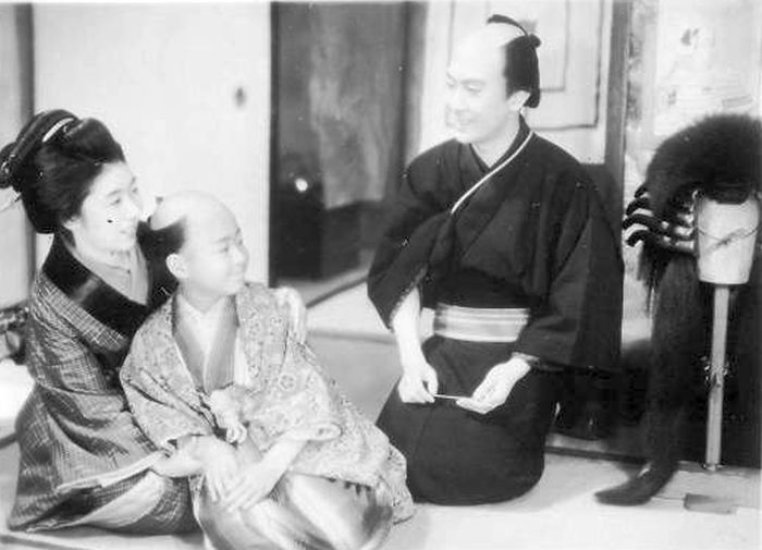 Scene of Danjurō sandai (団十郎三代) directed by Kenji Mizoguchi with Kinuyo Tanaka and Hiroyuki Nagato as a child - 1944